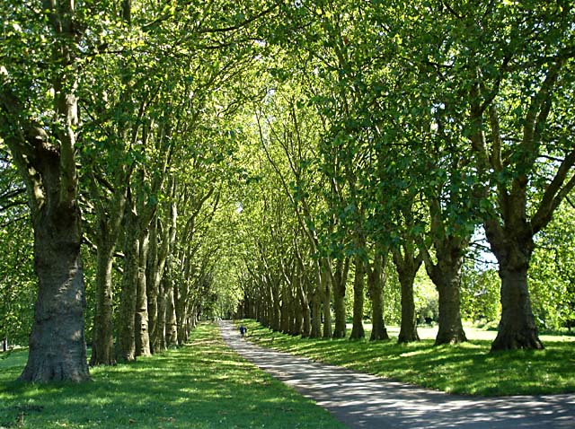 Avenue of trees in St George's Park St George's Park was originally outside the city boundary of Bristol, and under the control of St George Urban District Council. This avenue of London Plane trees date from 1902.